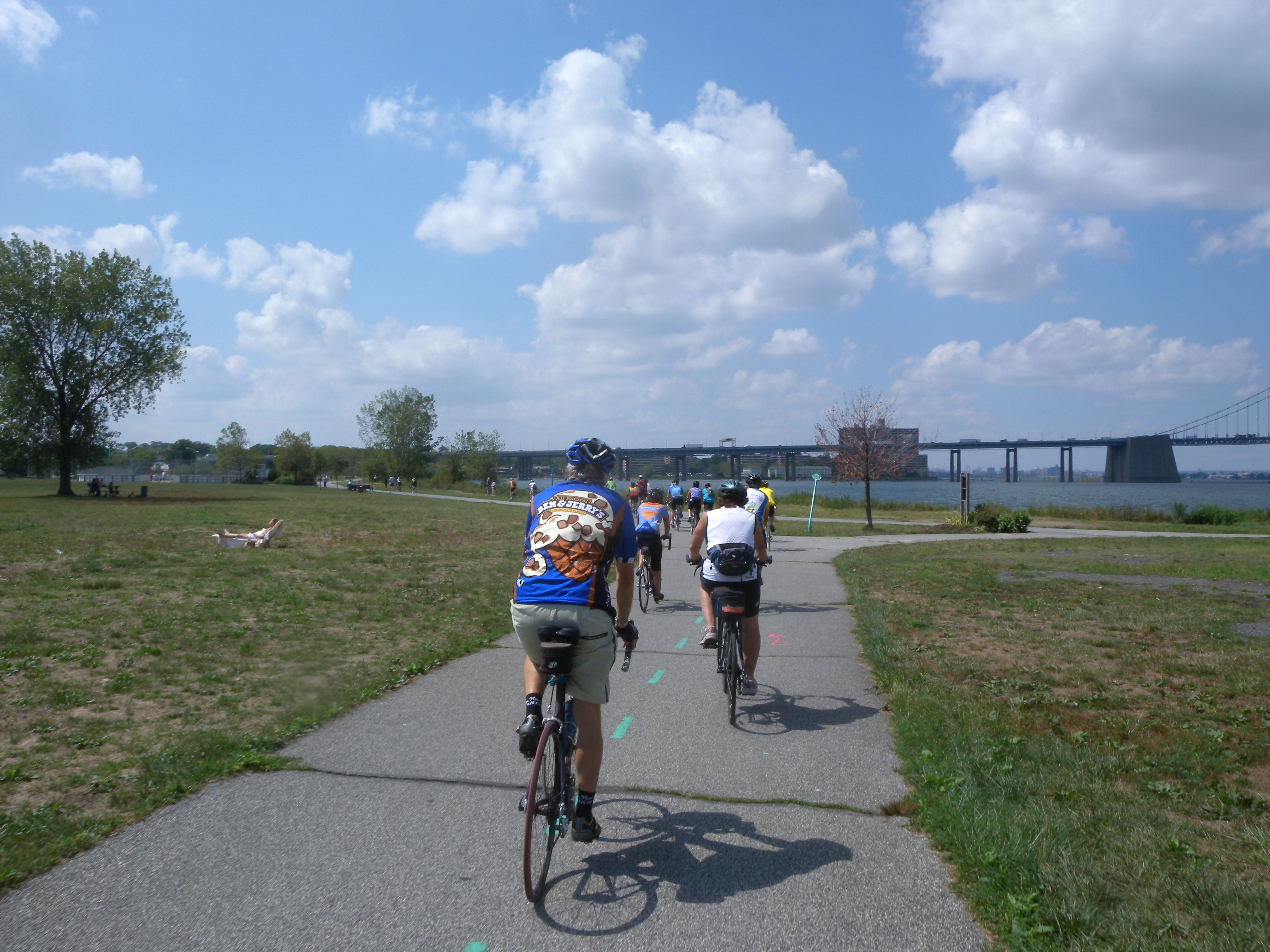 Looking west as biker gang approach the end of BQGW and Throgs Neck Bridge in eastern Little Bay Park on a mostly sunny midday.